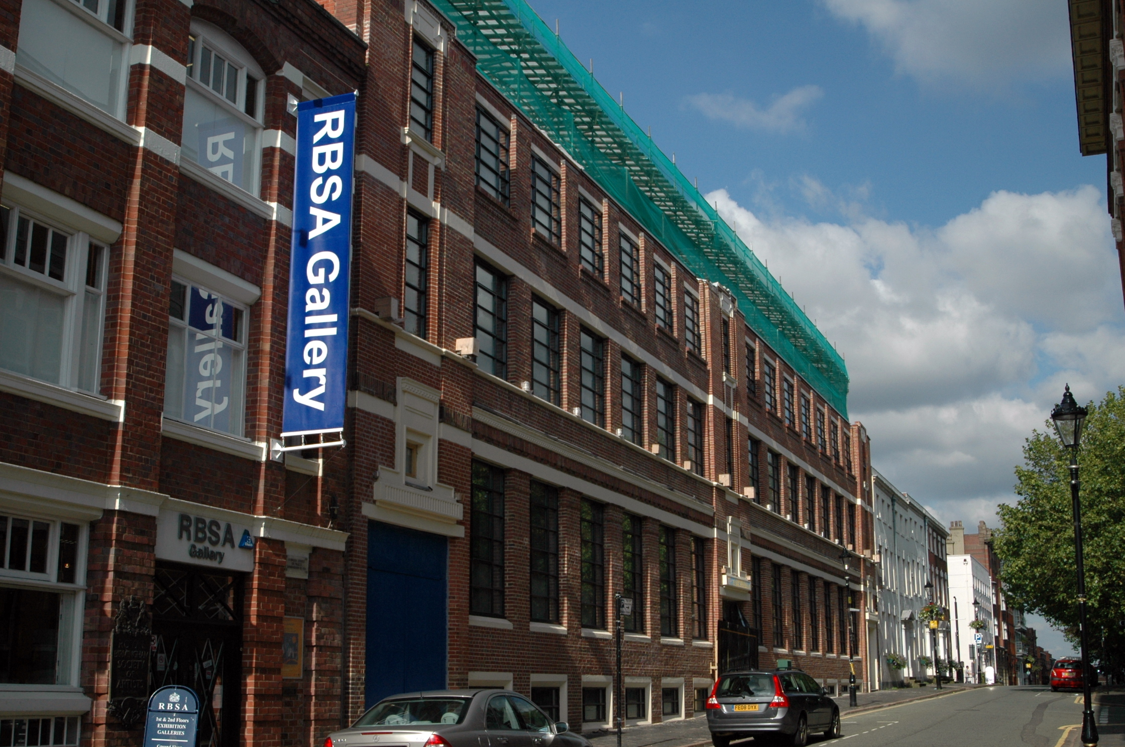 This is the St Paul's Place development in Birmingham, England. By Chord Developments, it involves the refurbishment of the Thomas Walker plc factory and overlooks St Paul's Square. The front has been uncovered.